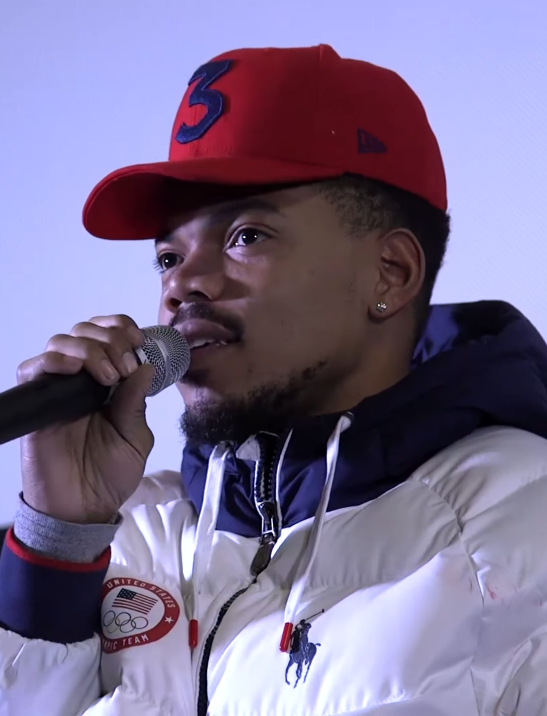 Chance the Rapper in February 2018